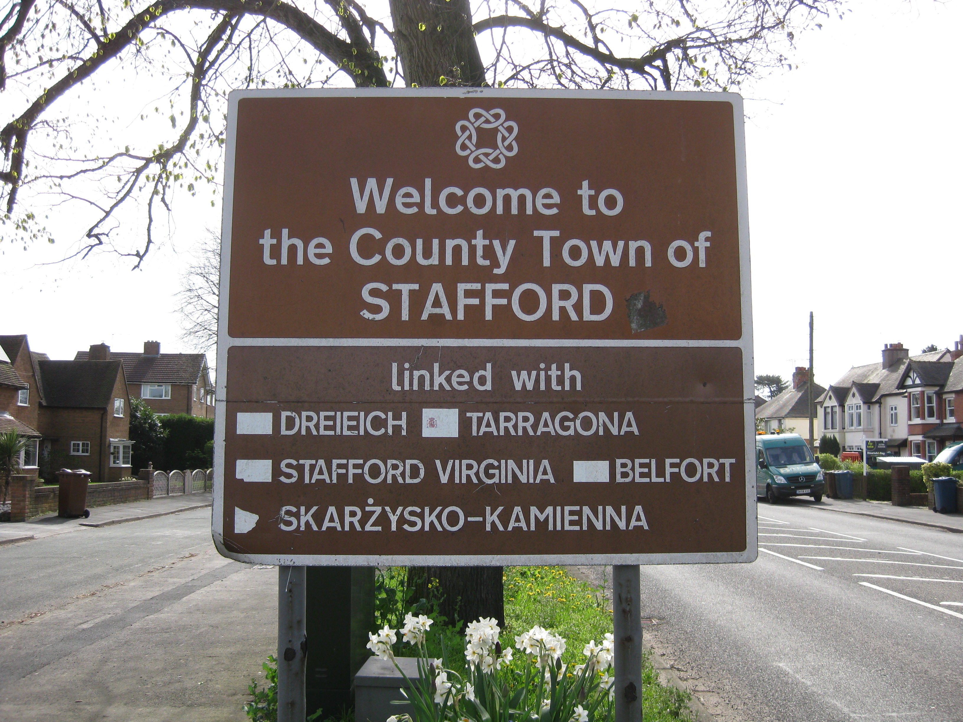 Brown town boundary sign on the Eccleshall Road. "Welcome to Stafford" and town twinning.